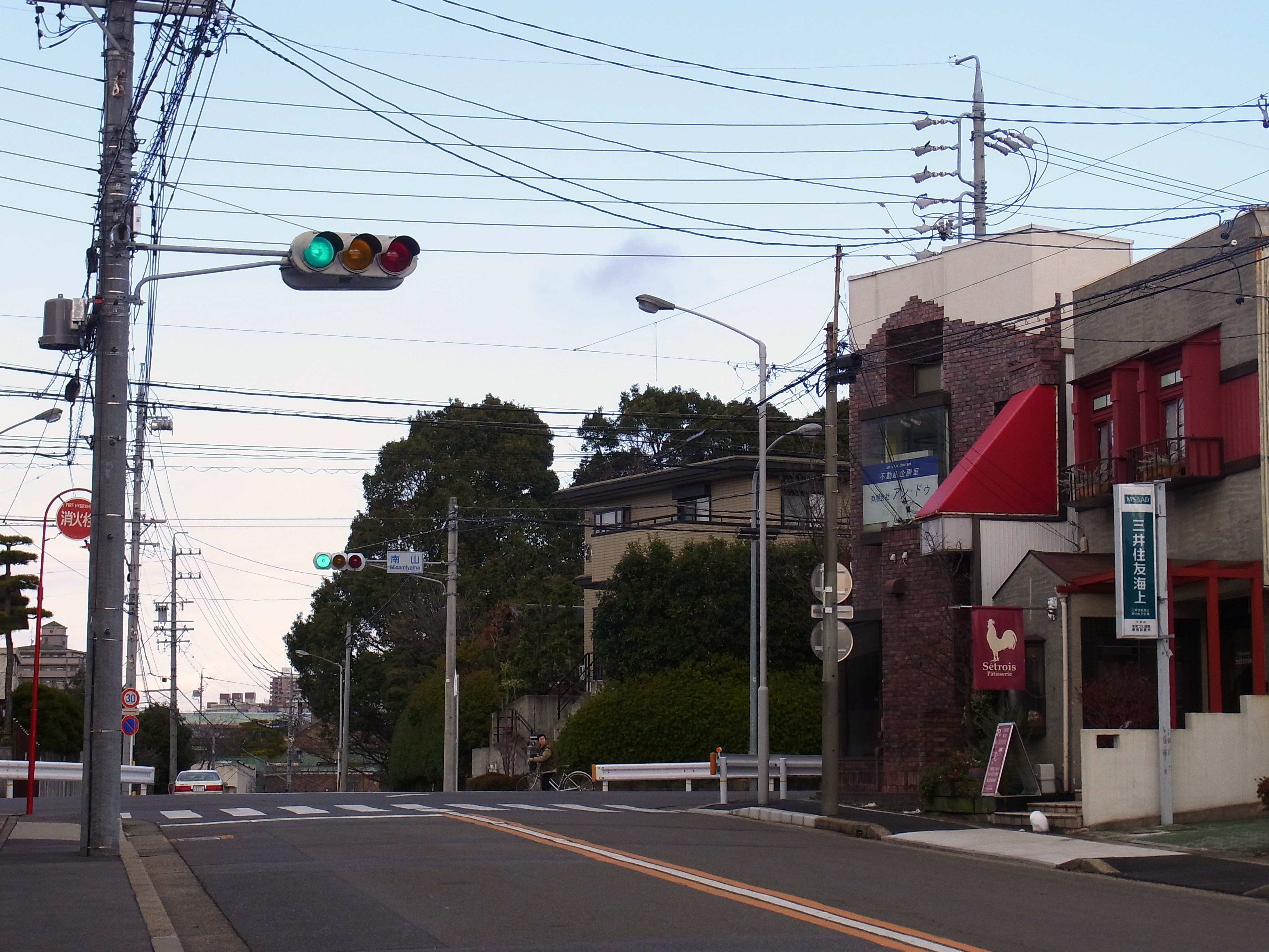 Minamiyama intersection in Showa-ku ward, Nagoya.